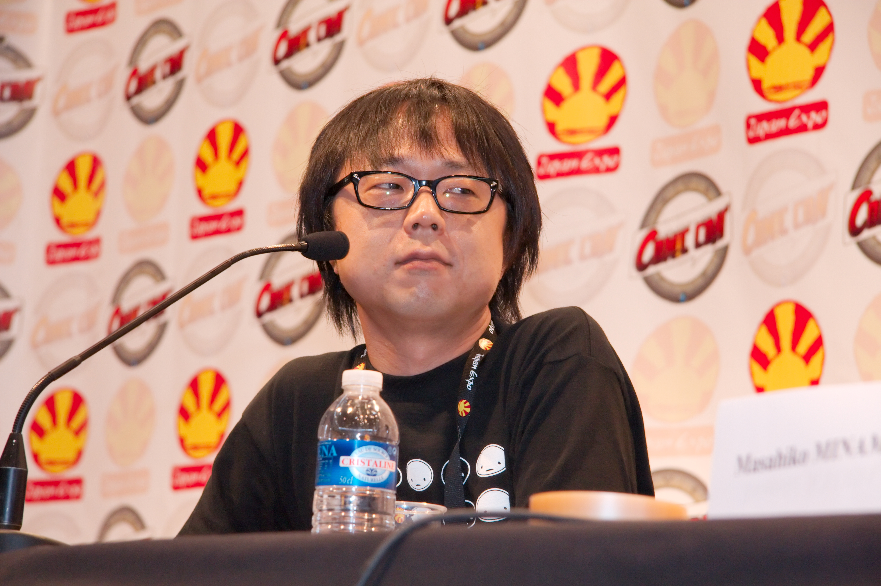 Tomoki Kyoda and Masahiko Minami's lecture at Japan Expo 2009 (Paris, France) for the movie Eureka Seven.